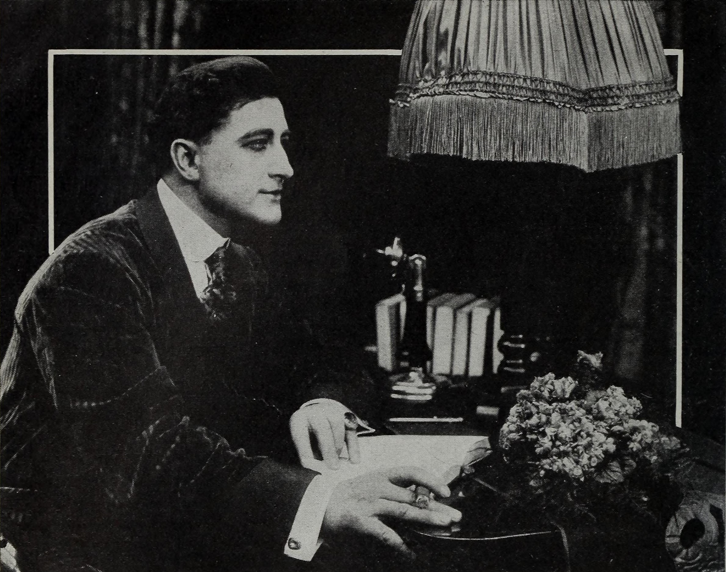 Printed above an article concerning his amethyst ring, which may be seen in this photograph